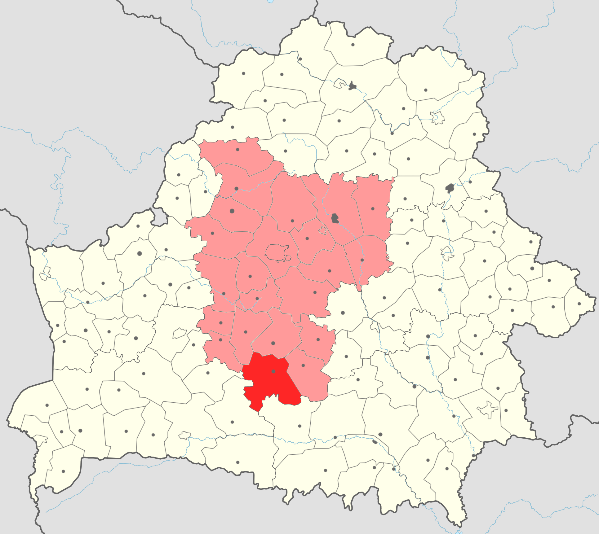 Map of Salihorsk rayon (in red) with Minsk voblast' (in light red) on the map of Belarus.